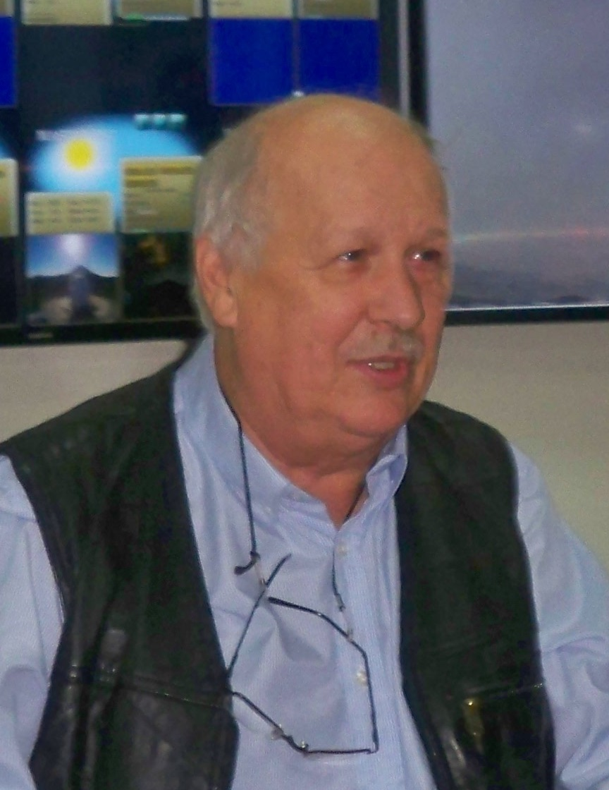 Lipunov Vladimir Mikhailovich - Soviet and Russian scientist-astrophysicist. Photo 4.3.2017 from the personal collection of V.A. Pogadaeva